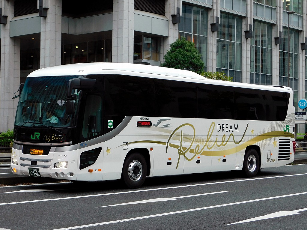 JR bus Kanto Hino S'elega (for "Dream Relier")